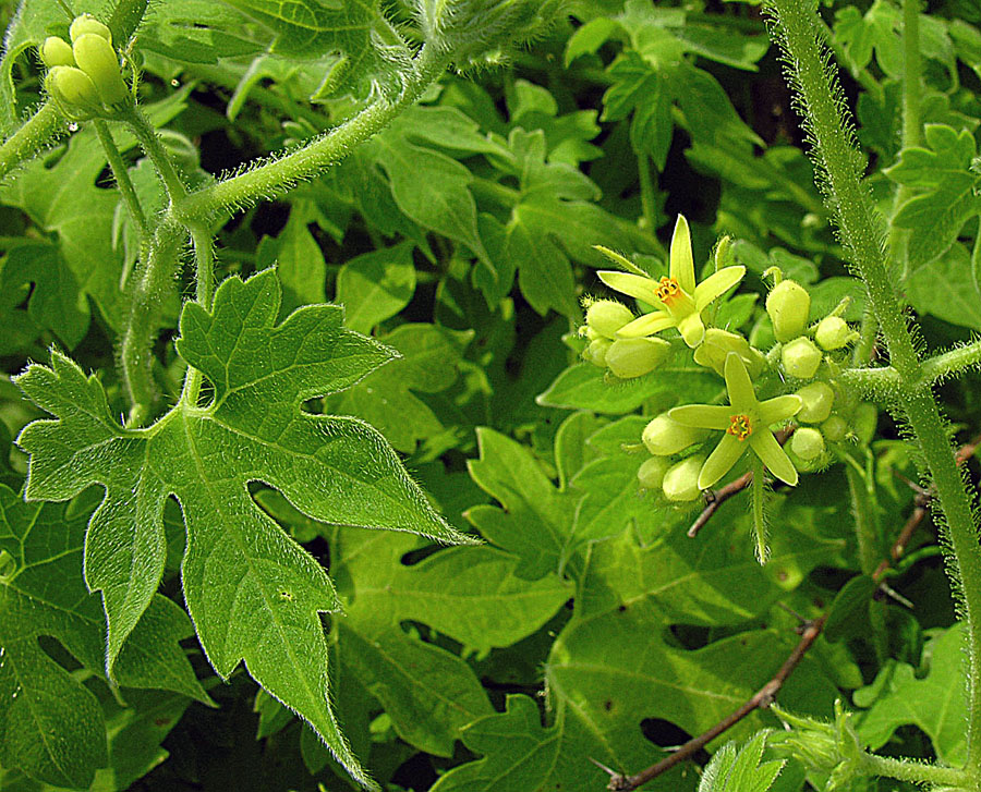 A weedy, invasive nettle, known here in Mexico as Alpuyeca. In context at